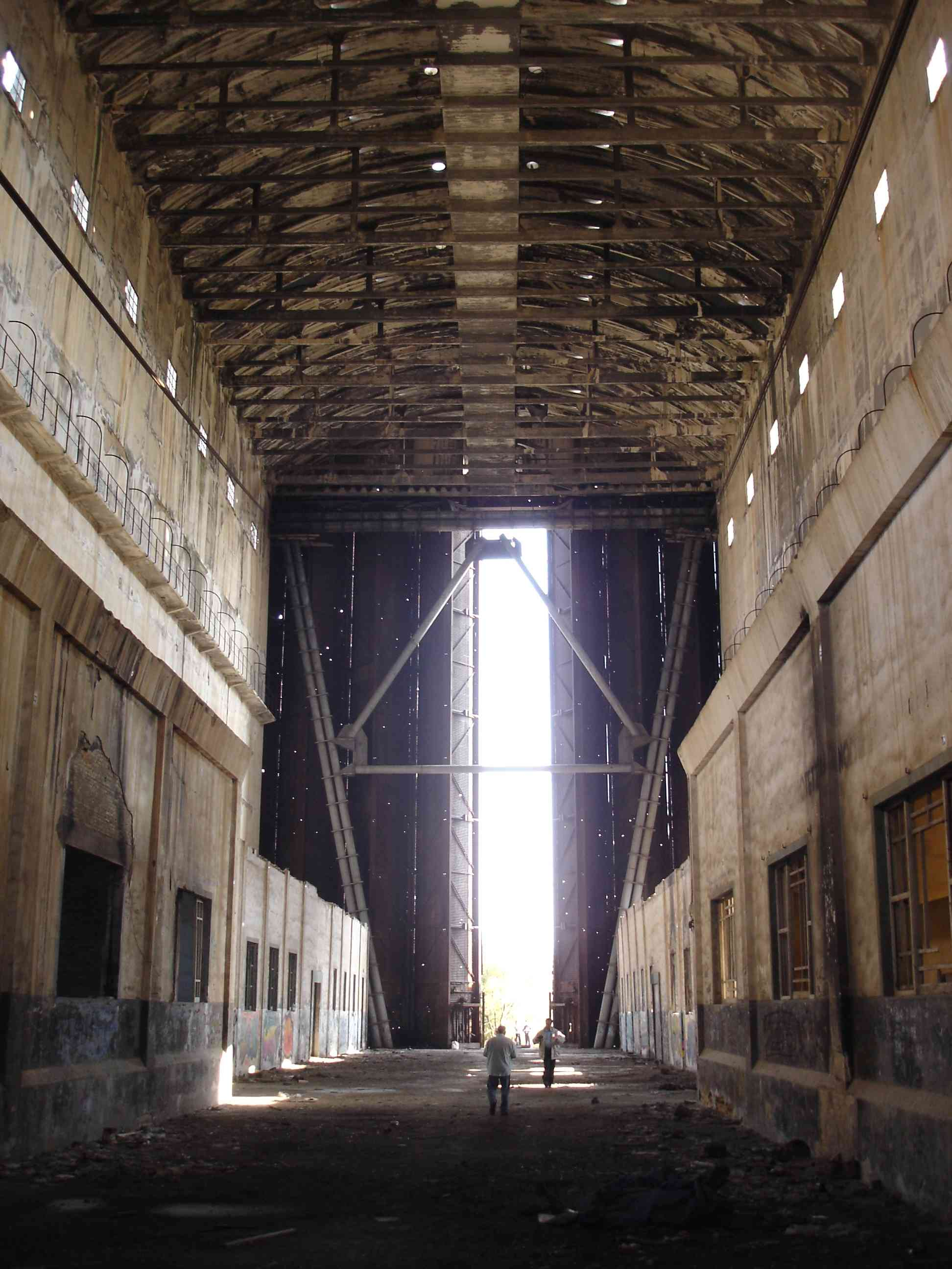 Airship shed in Augusta Sizilia Italy Picture taken 10/26/2005 by Matthias Pfeifer